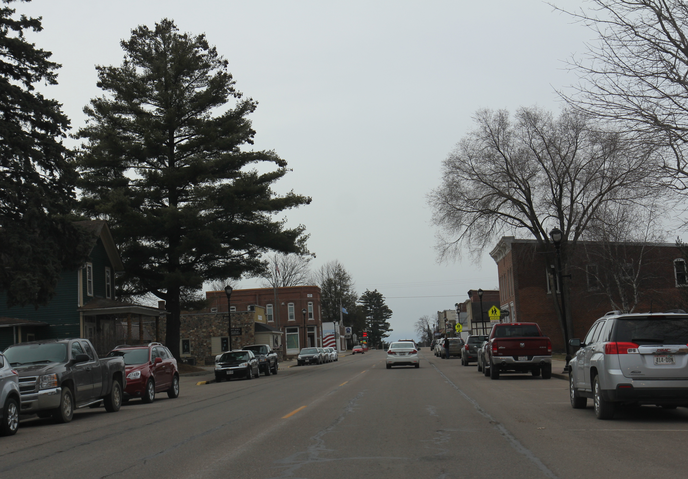 Looking south in downtown Greenwood, Wisconsin on WIS73